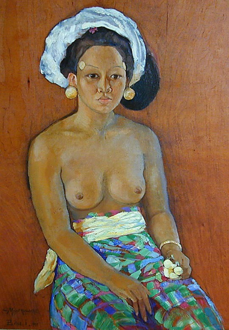 Balinese beauty